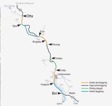 E6 Biri-Otta construction program